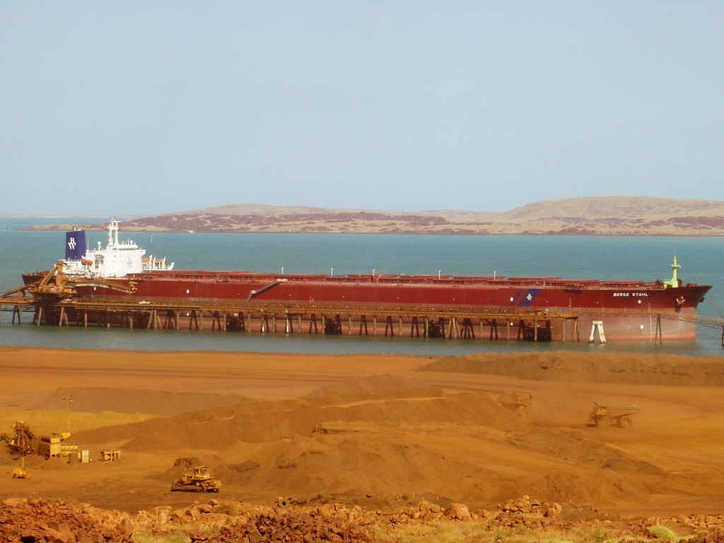 Berge Stahl, a bulk carrier. IMO-nummer: 8420804 MMSI Number: 258817000 Callsign: LATO2 (formerly) → 2EZE5 Length: 342.08 m Beam: 63.53 m